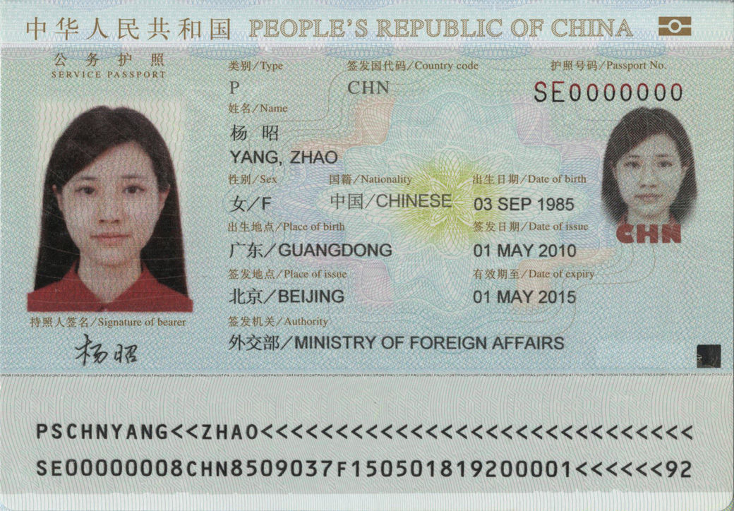 Personal Info Page of the Chinese Service E-Passport.